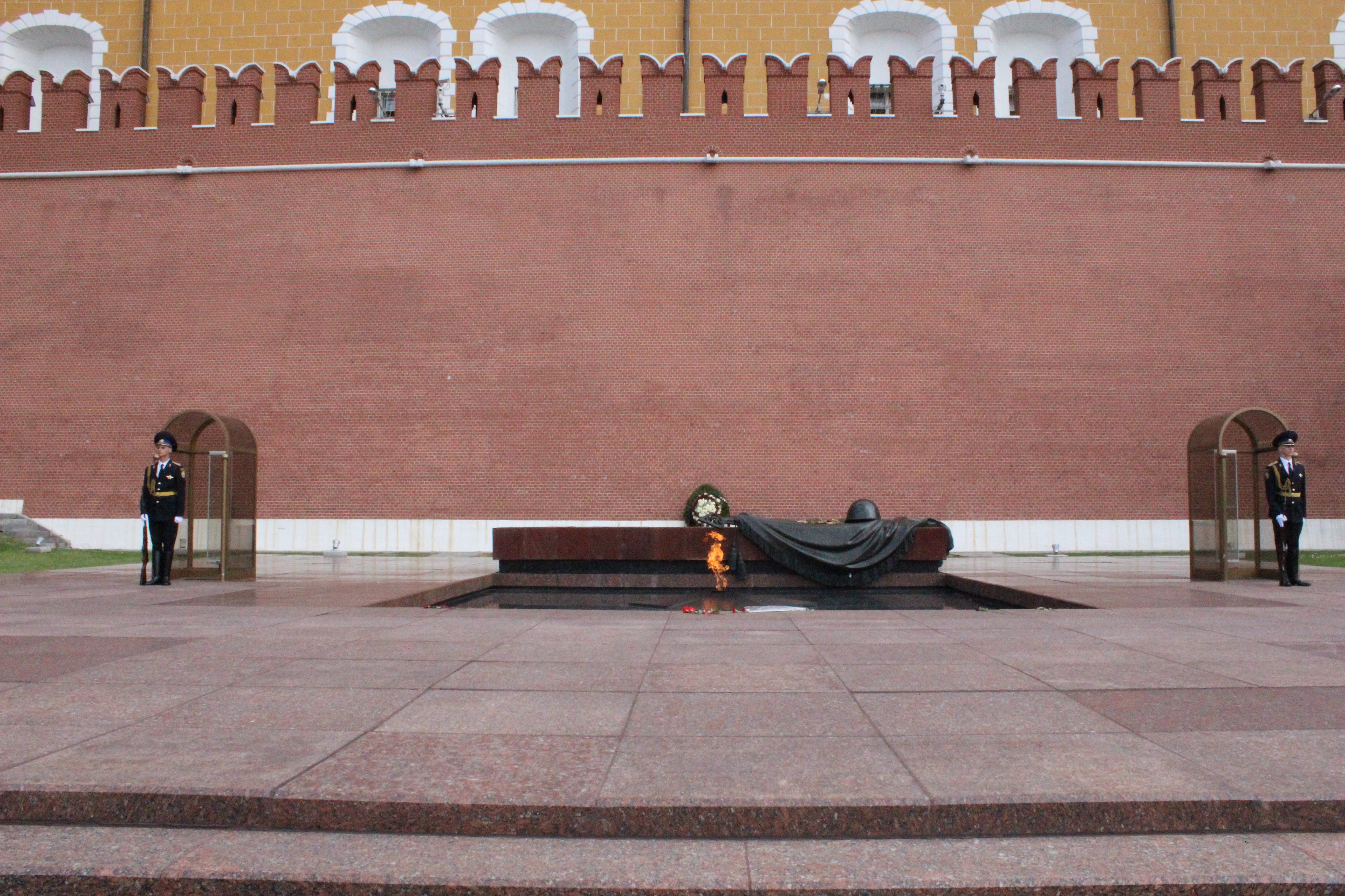 The Tomb of the Unknown Soldier is a war memorial, dedicated to the Soviet soldiers killed during World War II. It is located at the Kremlin Wall in the Alexander Garden in Moscow.